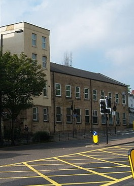 Barrack Court, Newcastle upon Tyne